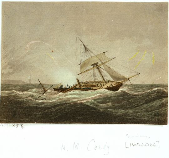 "HMS Surinam struck by lightning, 11 December 1806": coloured acquatint in the National Maritime Museum, Greenwich by Nicholas Matthews Condy